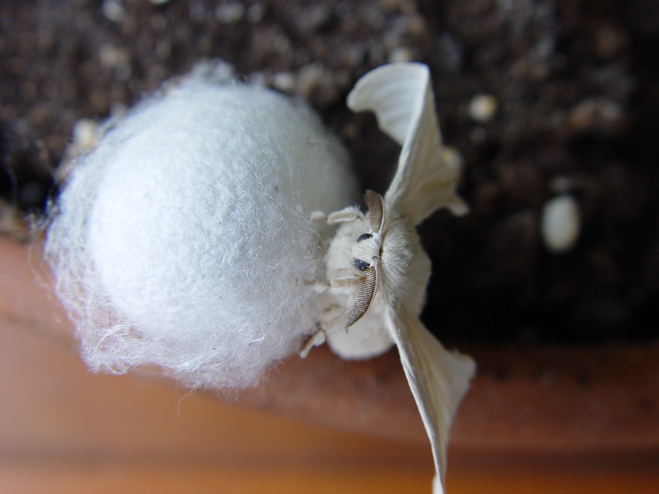 Bombyx mori on his cocoon, front view